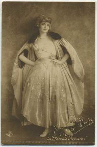 Postcard of Billie Burke in the film Gloria's Romance (1916).